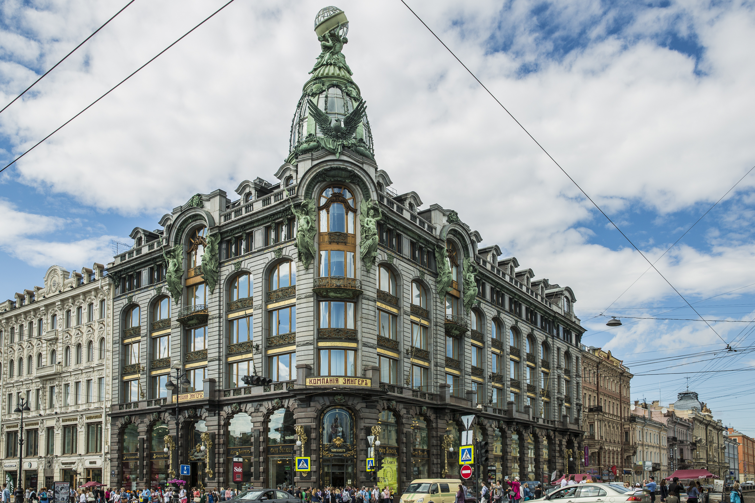 Saint Petersburg, Russia. Singer House. Wikipedia: Singer House (Russian: Дом компании «Зингер»), also widely known as the House of Books (Russian: Дом книги), is a building located at the intersection of Nevsky Prospekt and the Griboyedov Canal, directly opposite the Kazan Cathedral in Saint Petersburg, Russia. It is recognized as a historical landmark, has official status as an object of Russian cultural heritage, and contains the headquarters of the VK social network (Russian FB).